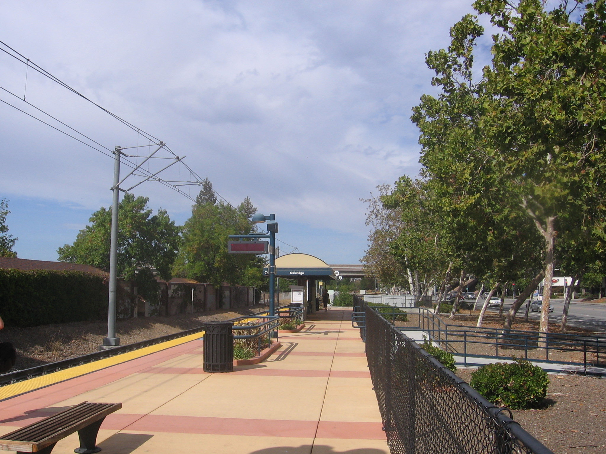 The Oakridge (VTA) light rail station in San José, California, USA.